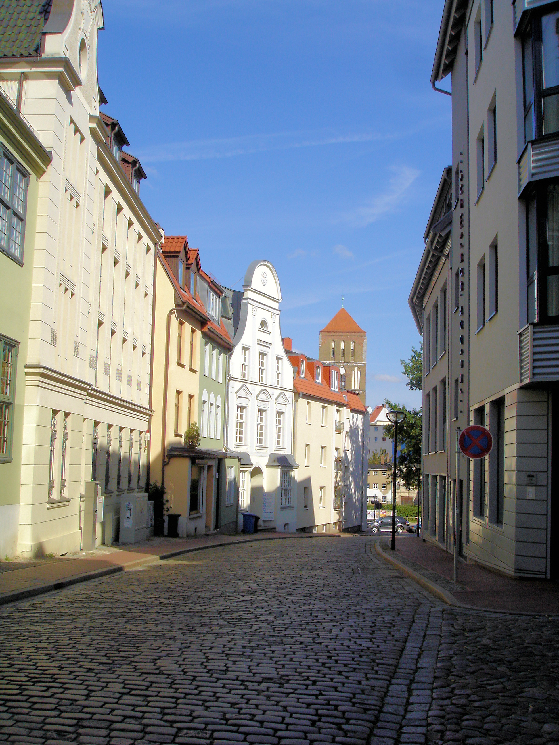 Street in the historic city of Rostock